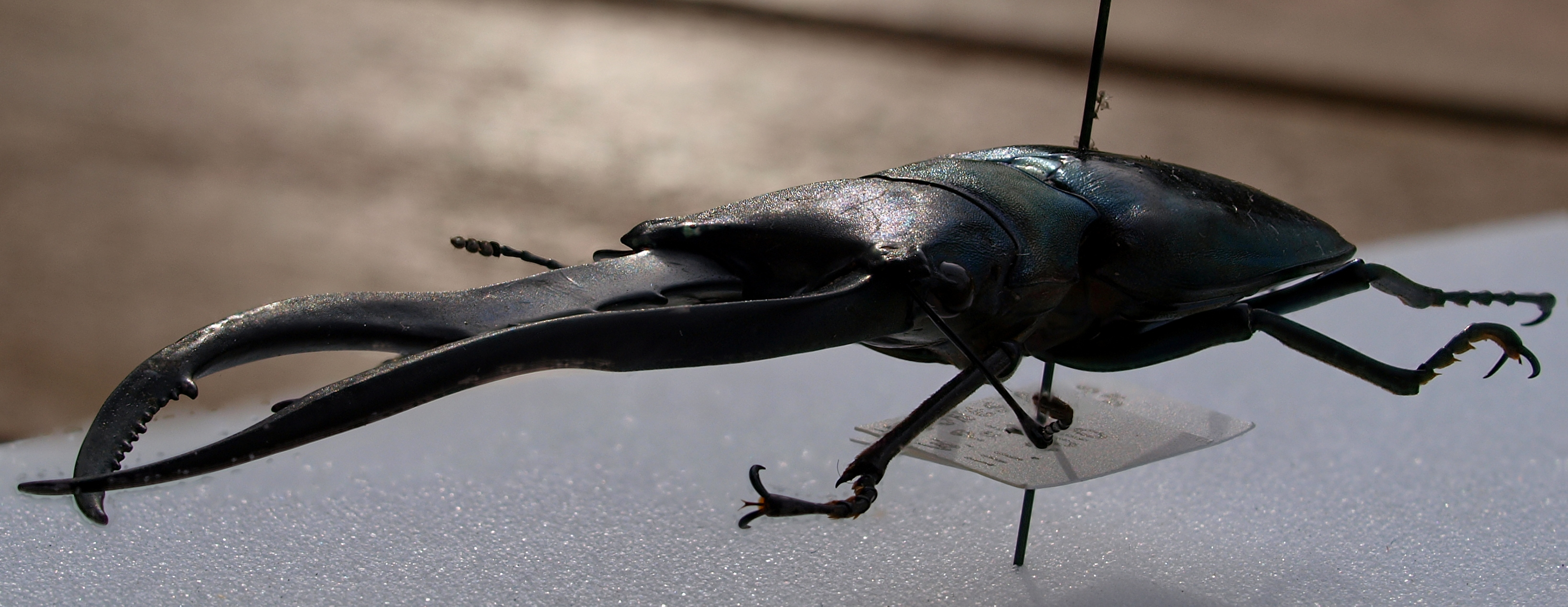 Cyclommatus metallifer, male. This species have extremely elongated mandibles.